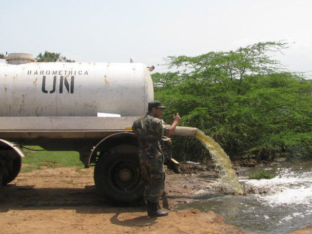 Dumping of sewage or faecal sludge from a UN camp into a lake in the surroundings of Port au Prince in Haiti in 2010 Photo by: Lahiny Pierre